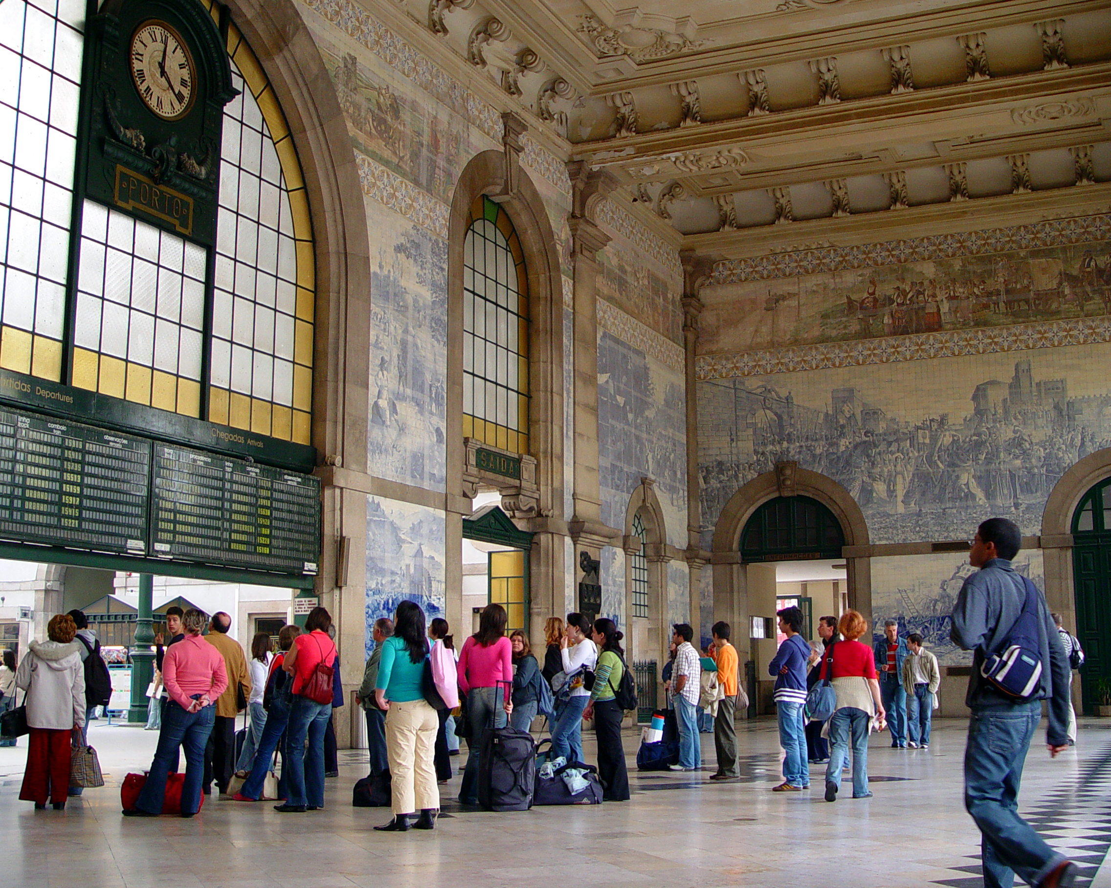 Porto São Bento train station, Porto, Portugal